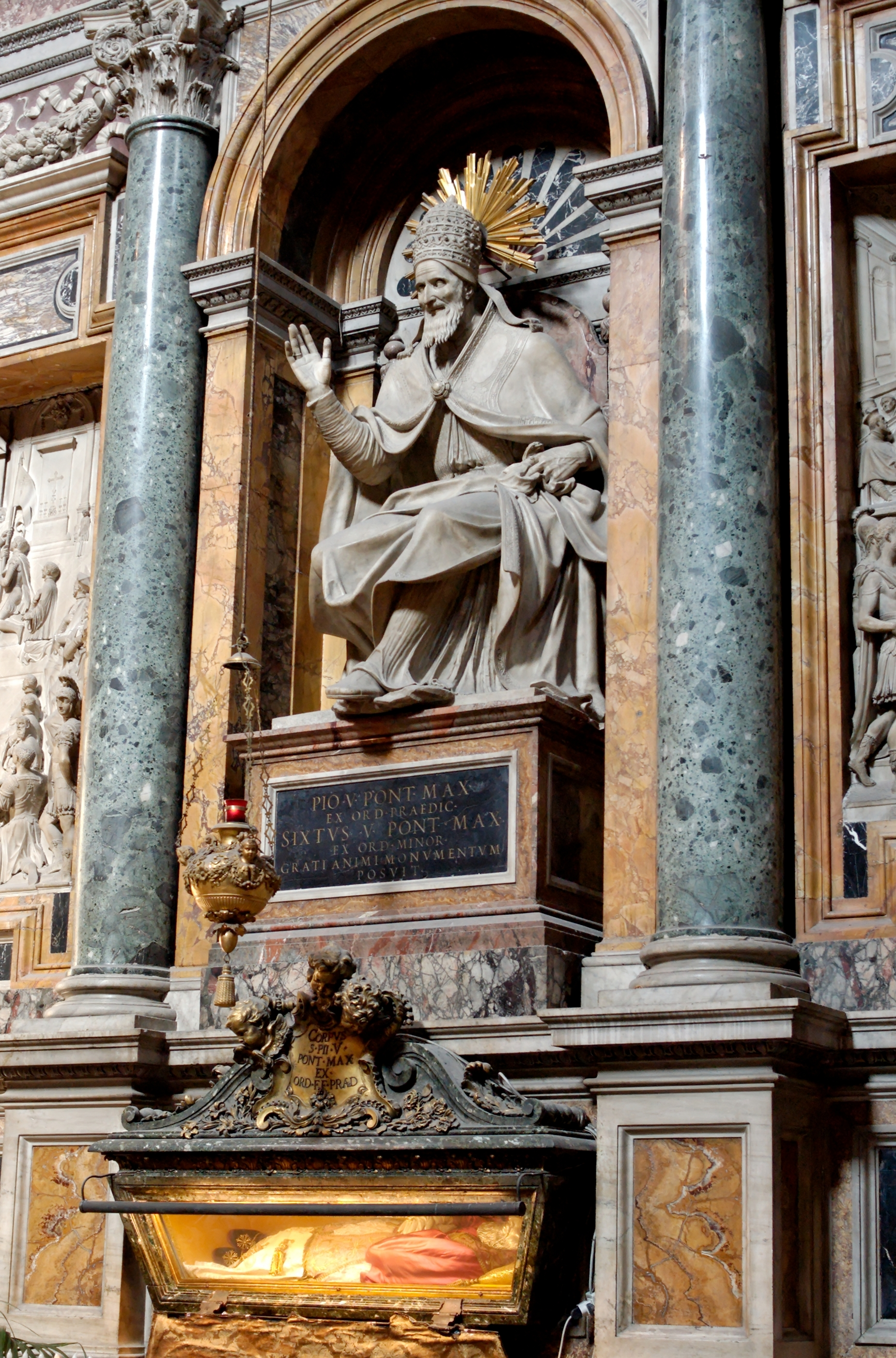 Tomb of Pius V in the Sixtin Chapel of Basilica di Santa Maria Maggiore.